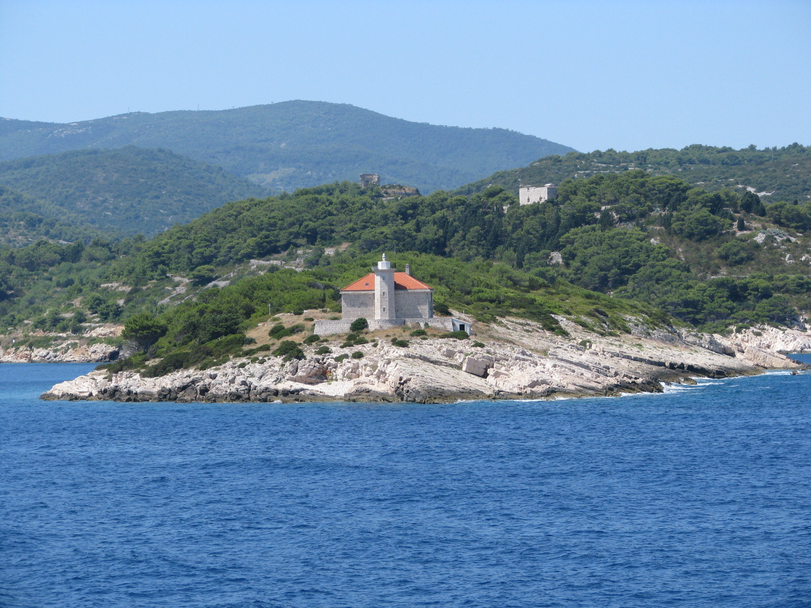 Lighthouse at Island of Host near Island of Vis (behind)